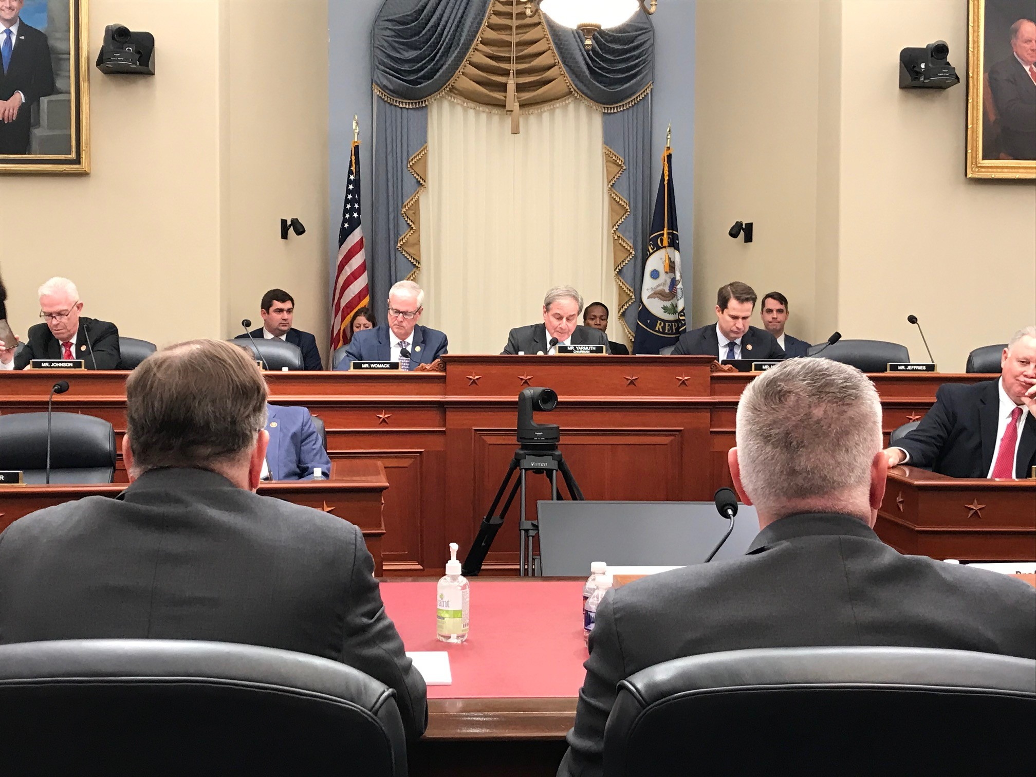 I hope we can build on the work of the JSC on Budget and Appropriations Process Reform & solutions advanced by Senate Budget Committee Chairman @SenatorEnzi to enact much-needed fixes. I remain committed to implementing reforms that improve our process.